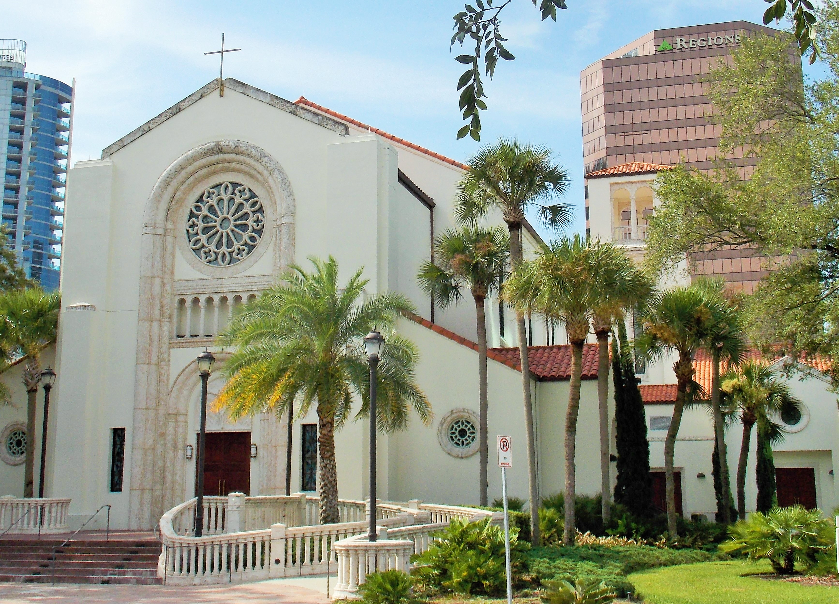 St. James Cathedral in downtown Orlando, Florida.